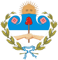 Coat of arms of Jujuy Province, Argentina.